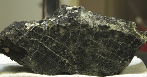 This sample is from the Atlantis Massif and is about 20 centimeters long.